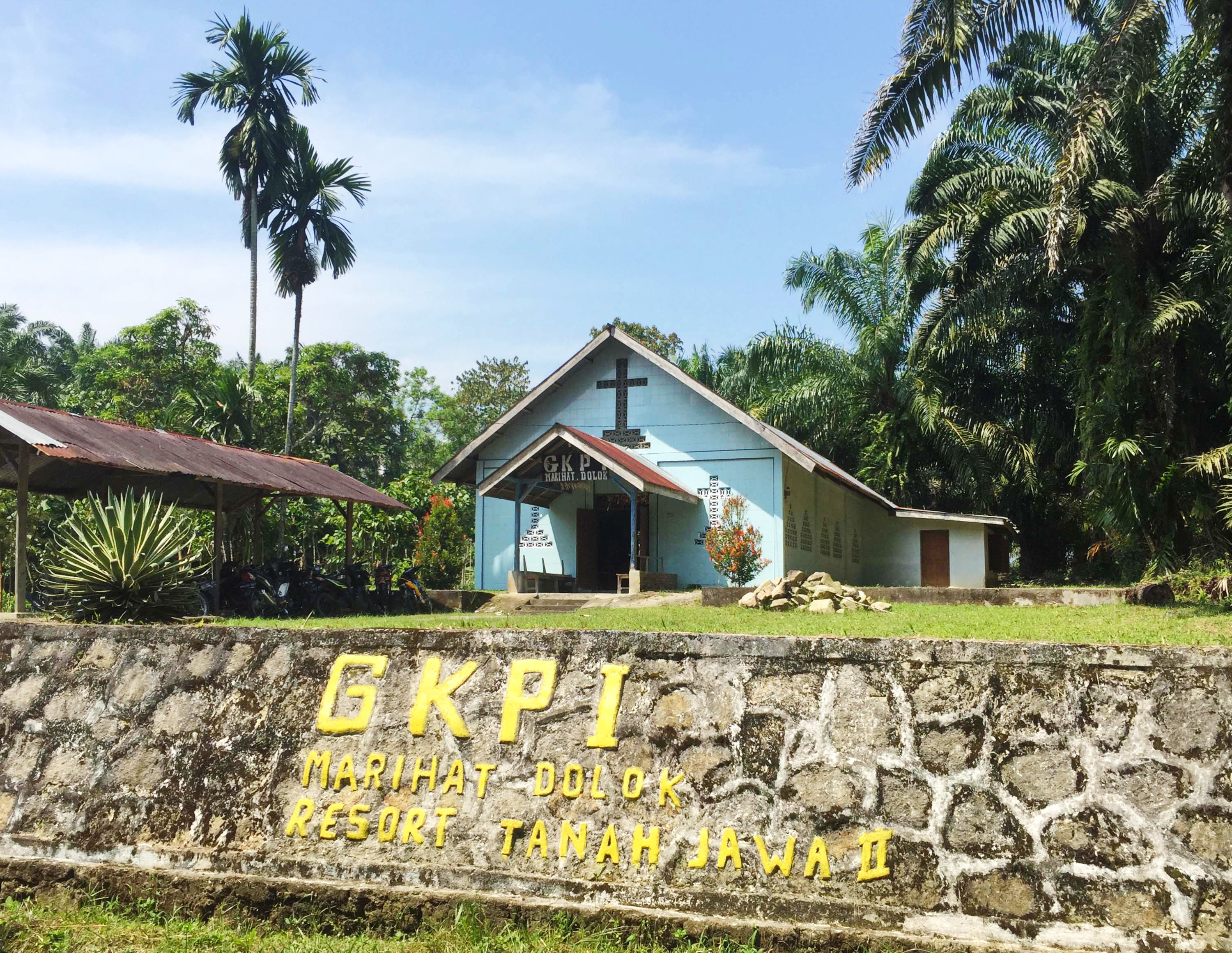 GKPI Marihat Dolok, Res. Tanah Jawa II Church in Marihat Dolok, Dolok Panribuan, Simalungun